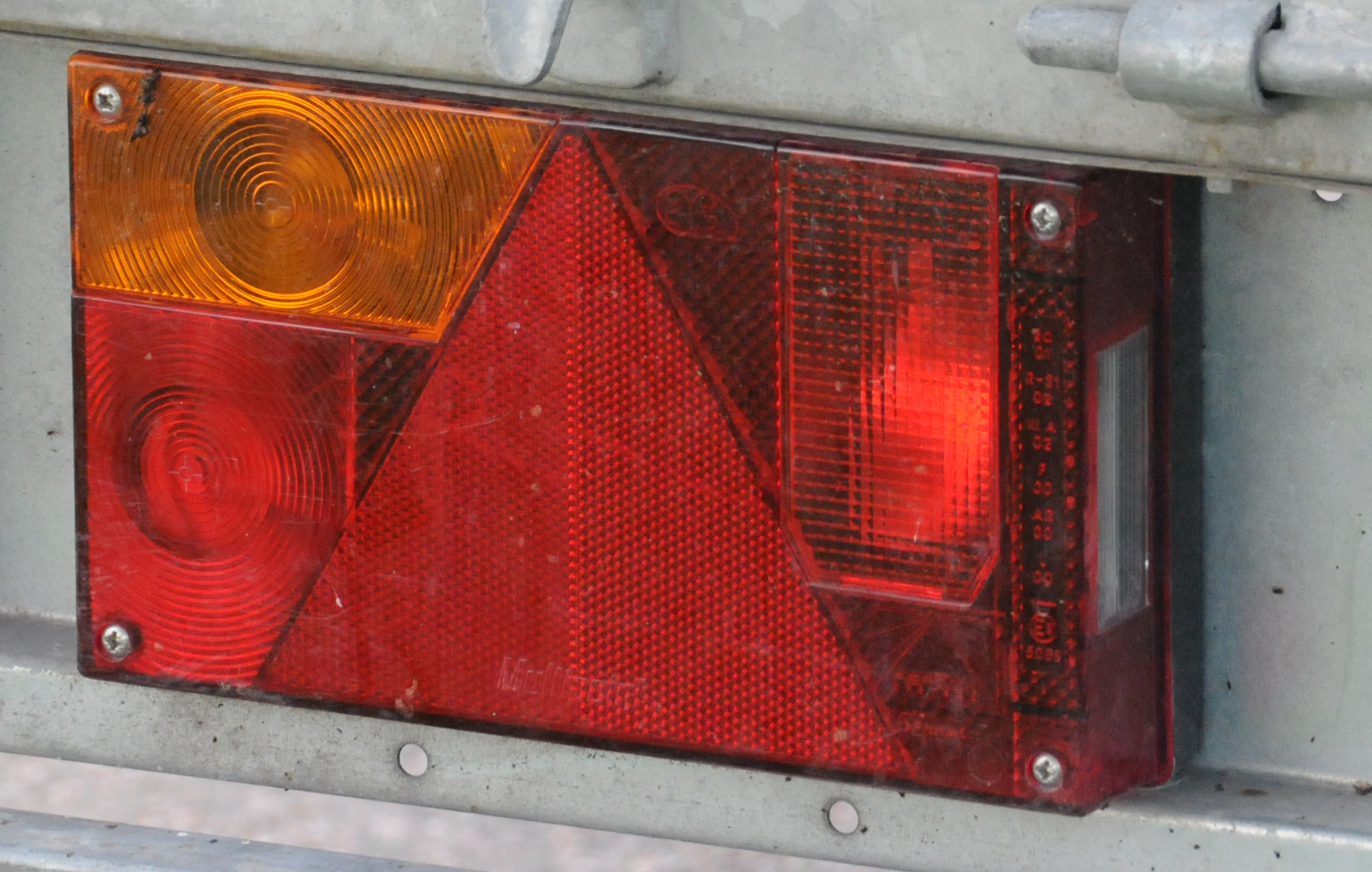 A combined tail light and reflector on a trailer